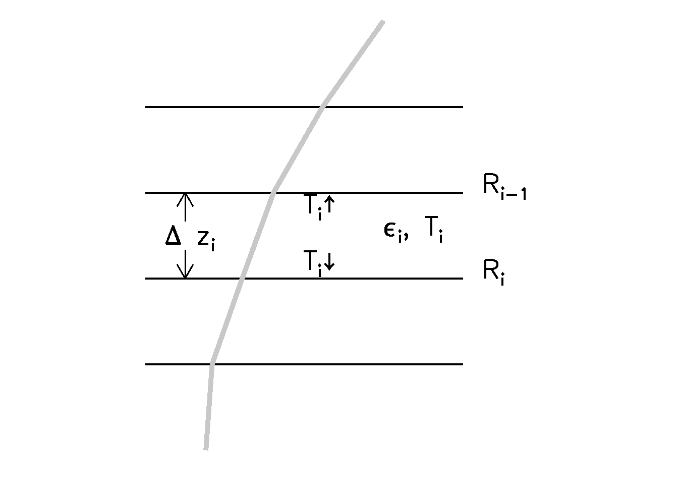 Diagram of a plane-parallel radiative transfer model with discontinuous interfaces. Reference: IEEE Trans. on Geoscience and Remote Sensing (2011) 49 (2): 612-627.